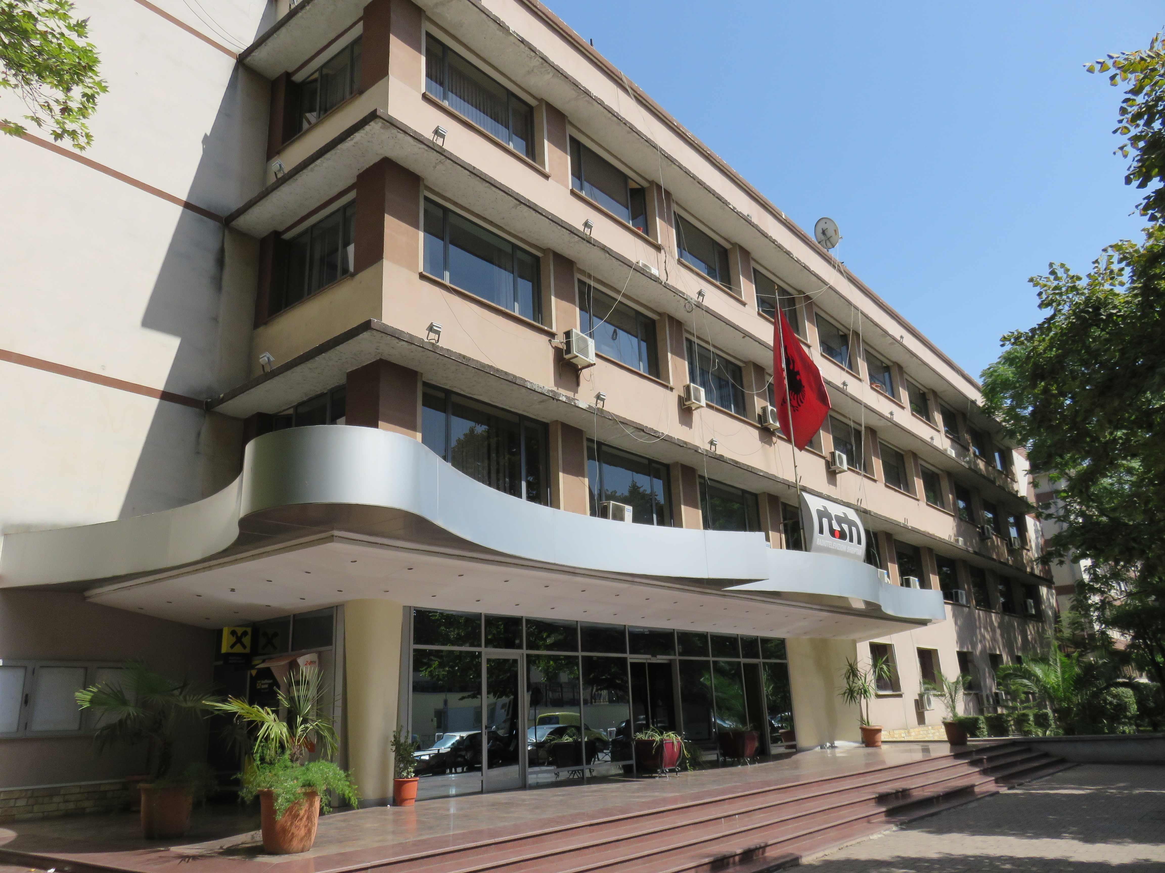 Albanian TV RTSh's Main Building in Rruga Papa Gjon Pali II, Tirana.